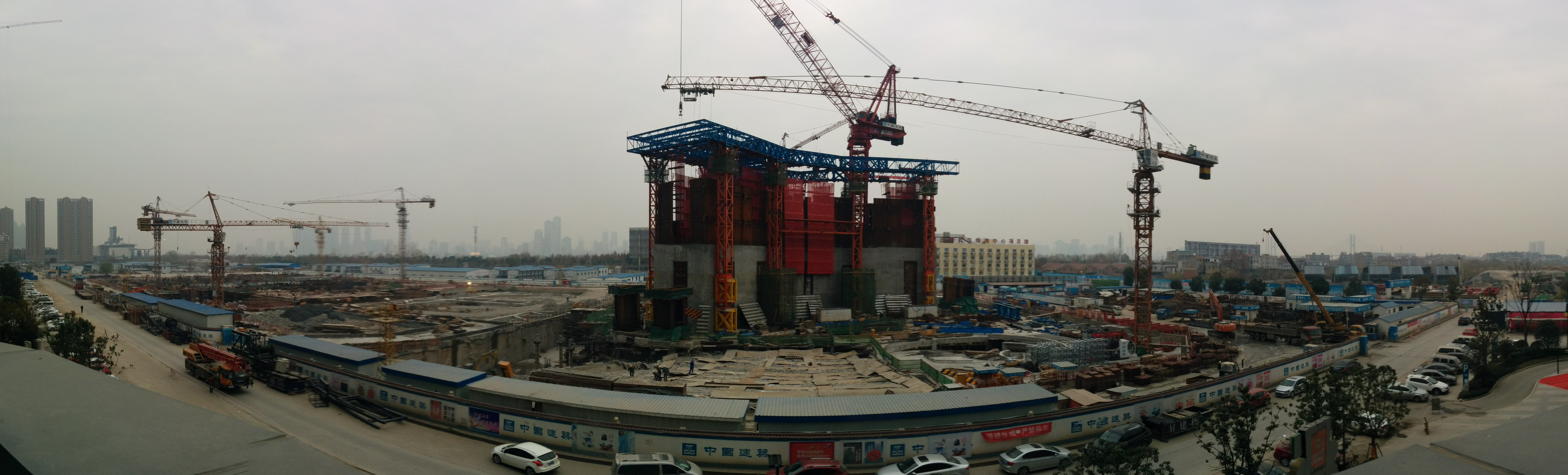 Wuhan Greenland Center on Dec 27 2014 Panorama